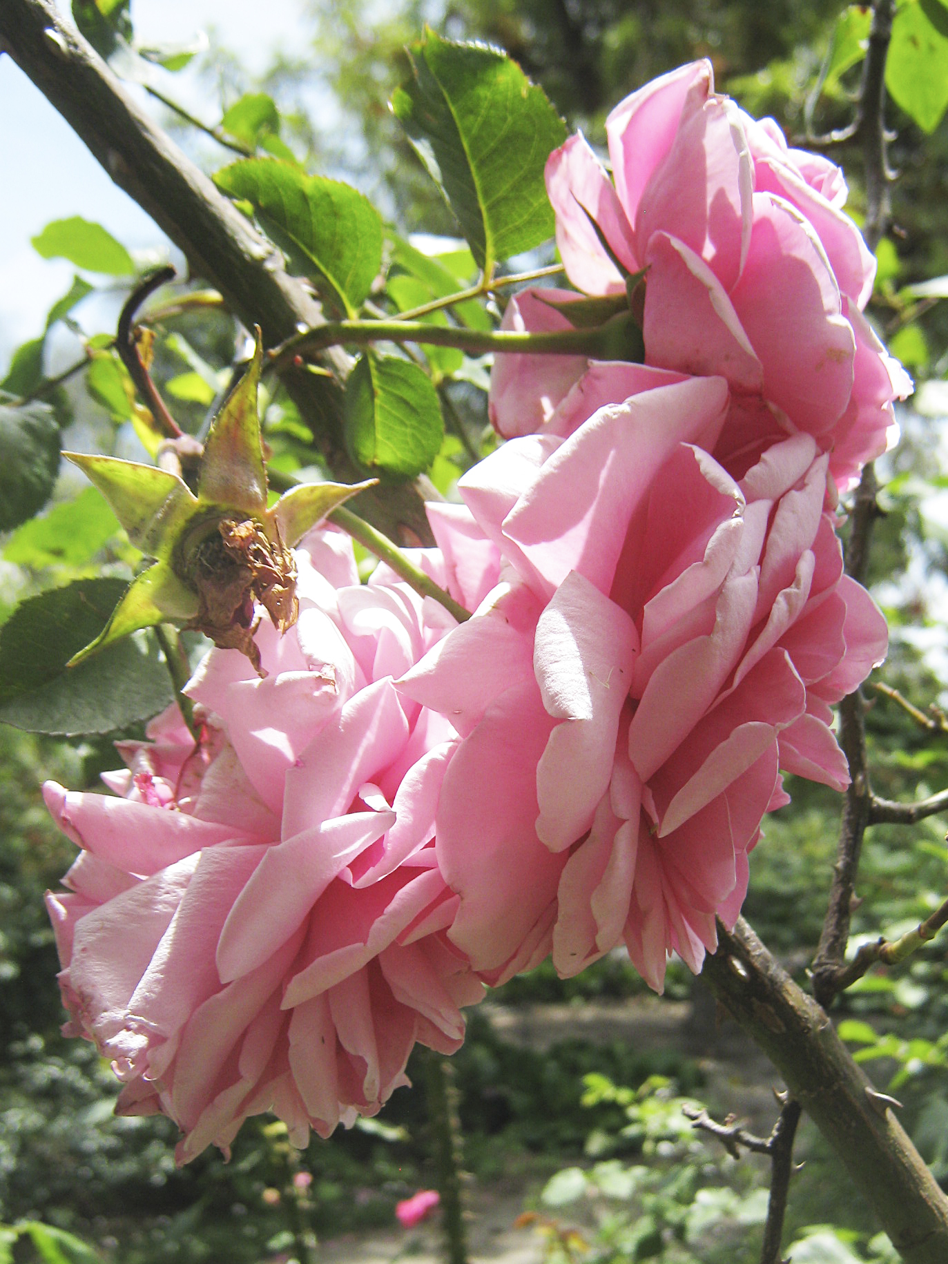 Rose 'Glenara No 14', Hybrid gigantea probably by Alister Clark before 1948; Photographed in the Alister Clark Memorial Rose Garden, Bulla, VIctoria